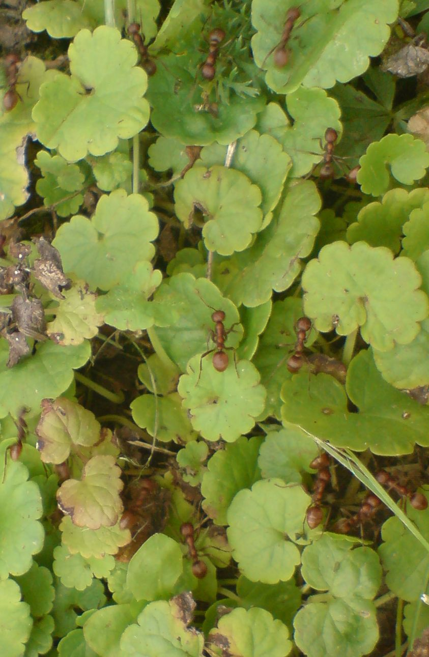 Amazon ants (Polyergus rufescens) marching in the raid for slave pupae. Photo taken in northern Prague, Czech Republic (more precisely in the areal of Institue of Experimental Botany of Academy of Sciences CR in Prague Suchdol). 2009. Cutted version.